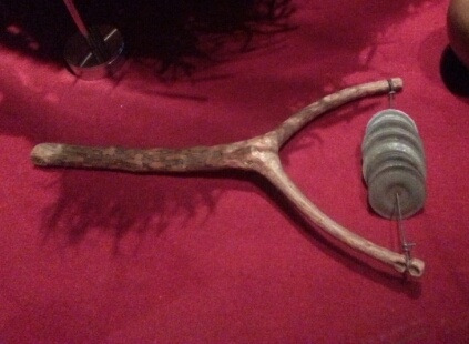 Chocalho coming from Extremadura, dated between 1925 and 1950. It consists of circular metal plates nineteen subjects with a wire and a wooden stand in the form of Y. Museum inventory number: 682 MDMB.